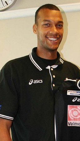 United States national team volleyball player Ryan Jay Owens.